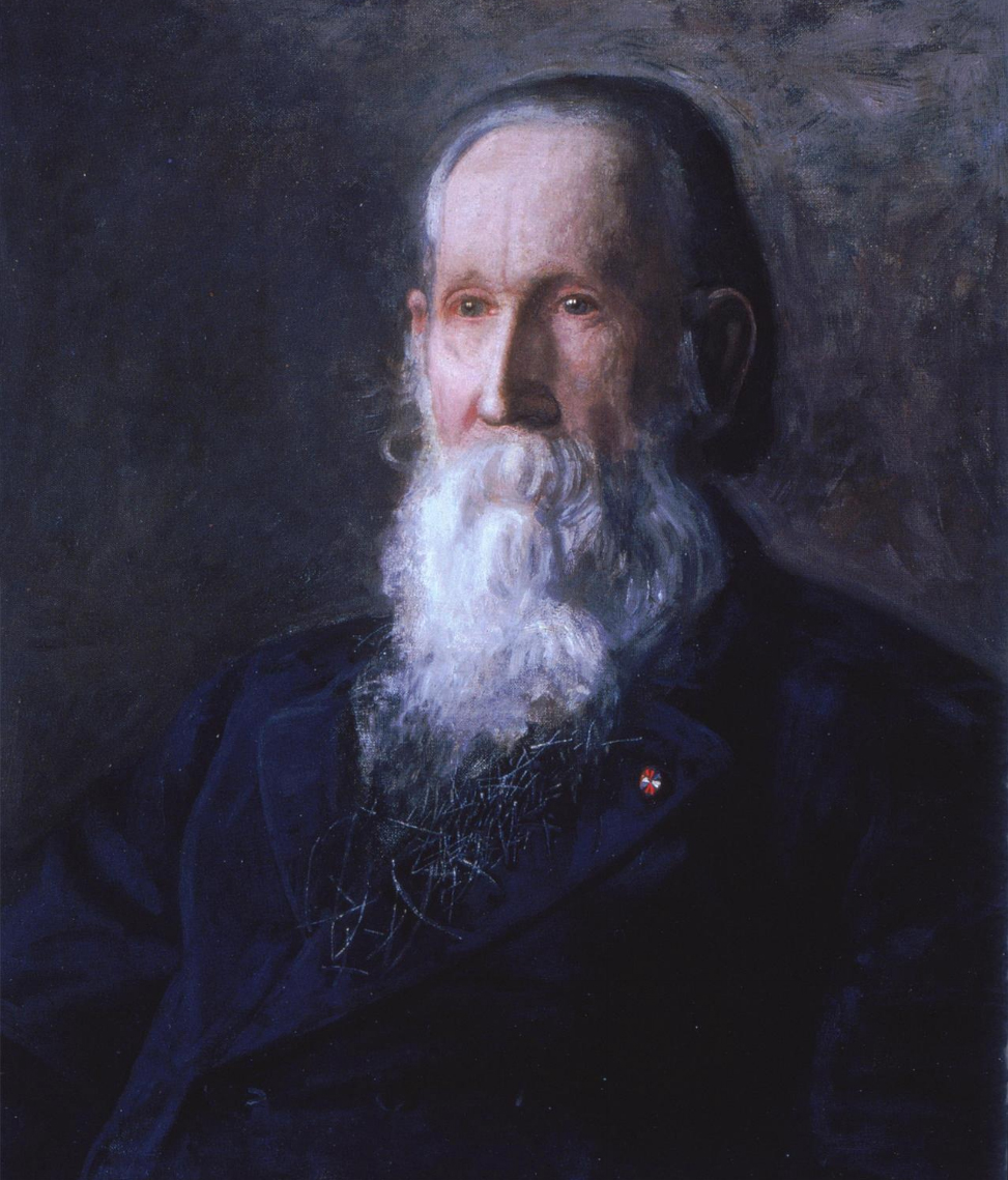 Paintings by Thomas Eakins